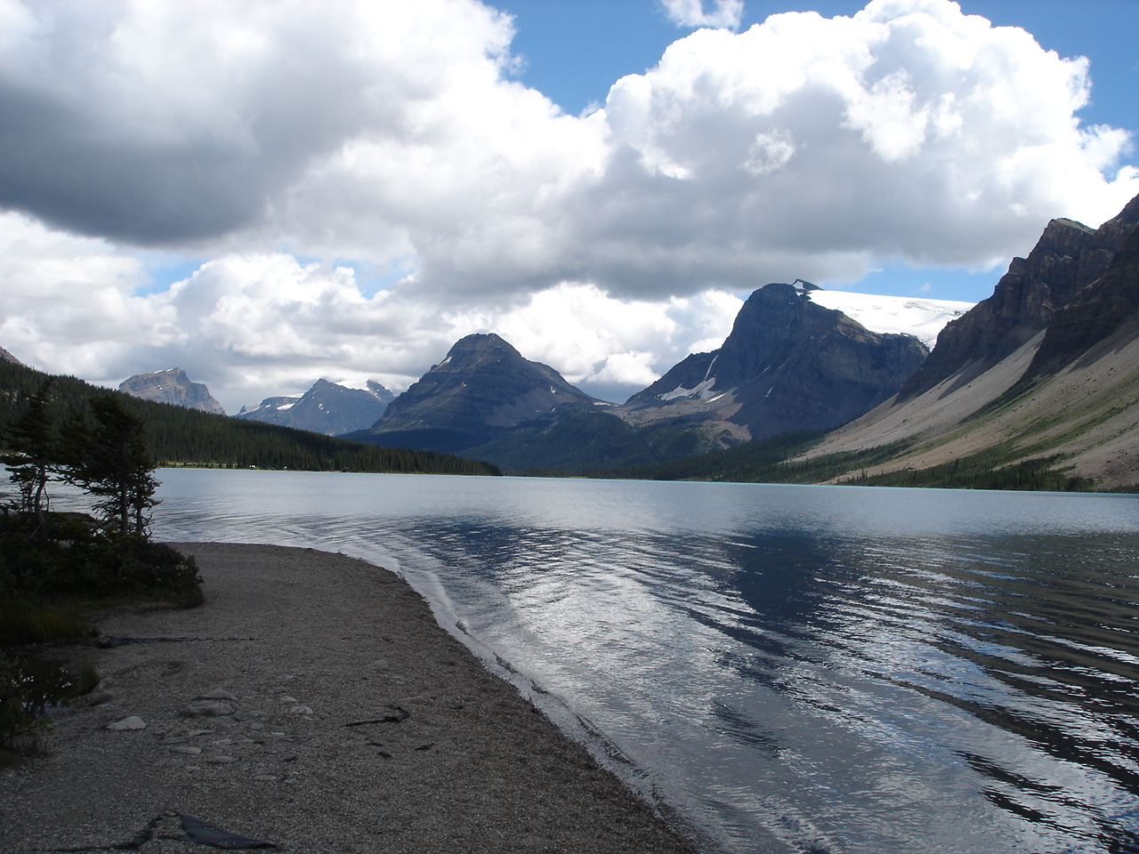 Bow River originates in Bow Lake. View from Bow Lake. Bow Lake.